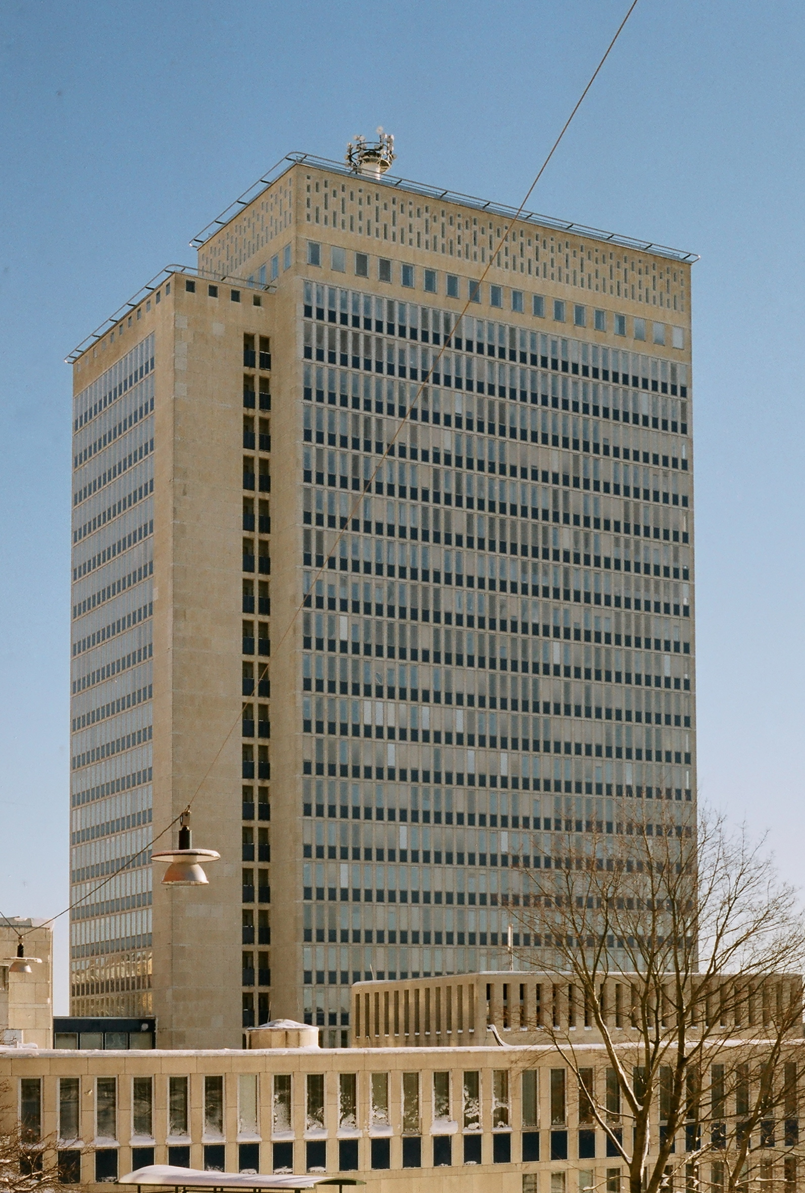 Folksamhuset